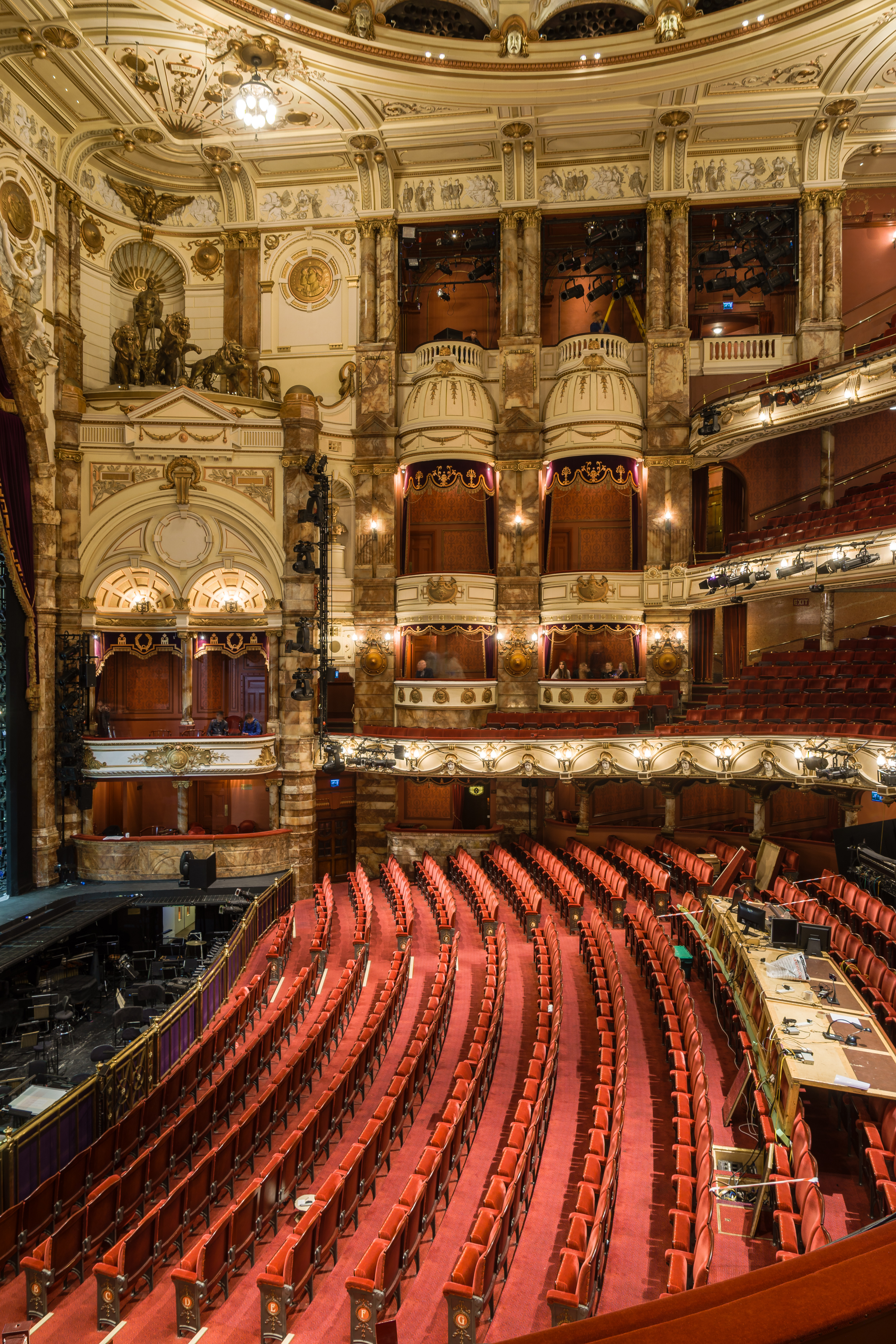 London Coliseum auditorium Wikidata has entry Q1868965 with data related to this item.